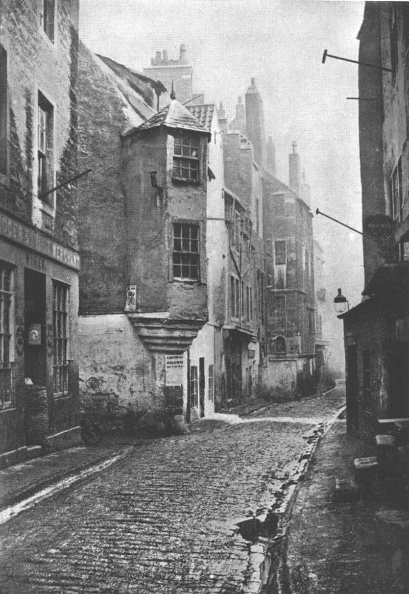 19th-century photograph of Edinburgh, Cowgate, showing Cardinal Beaton's lodging